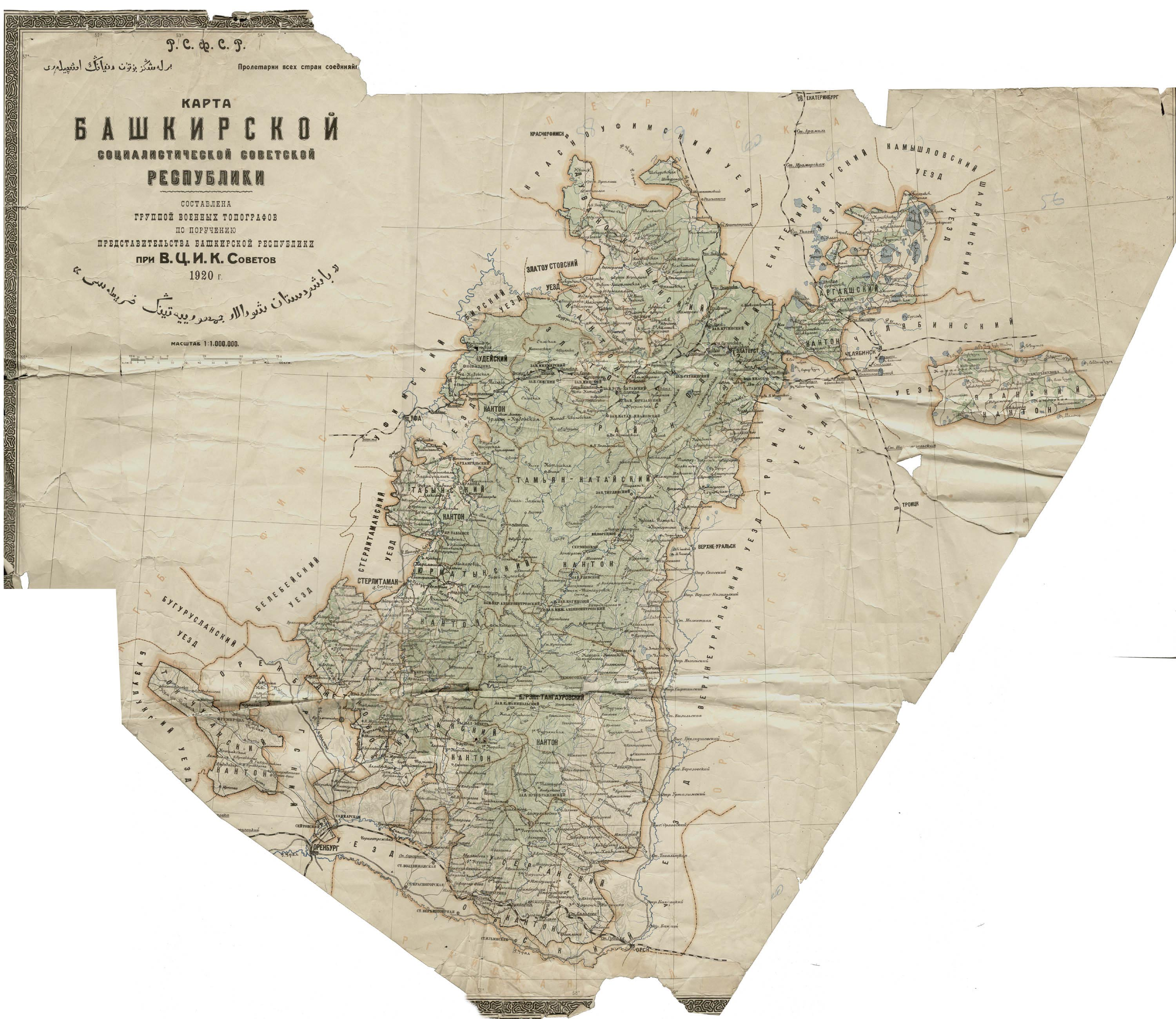 Maps of BSR (in RSFSR) (1920)